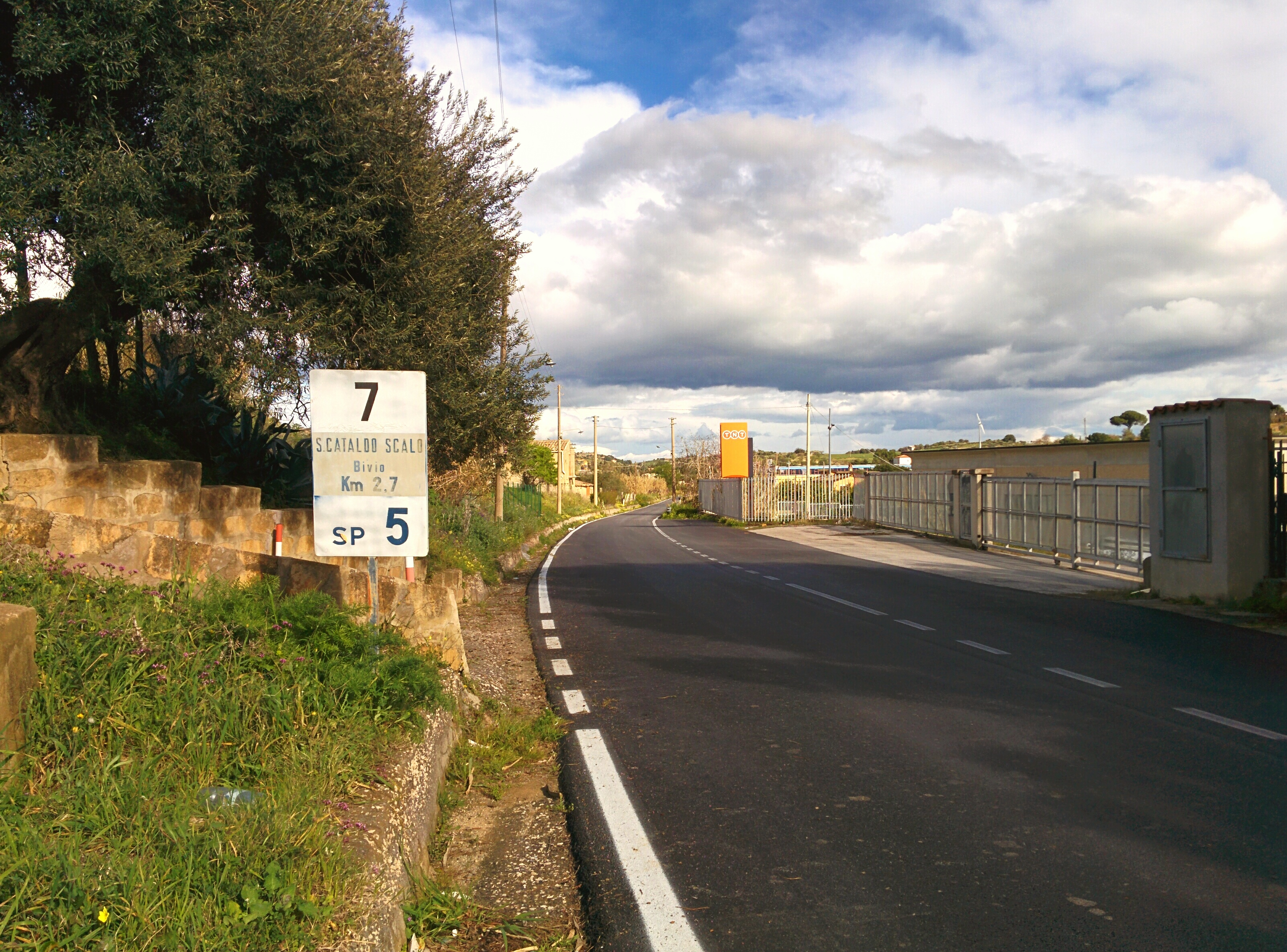 Seventh kilometre milestone in road strada provinciale 5 (province of Caltanissetta) in Favarella (Caltanissetta).